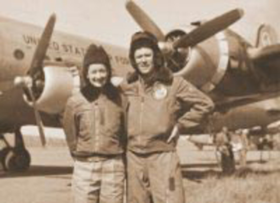 a blurry image of lillian kinkella keil from the airforce website